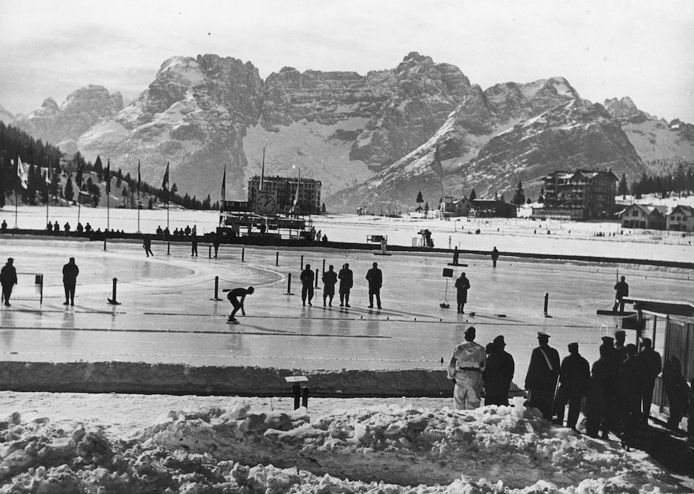 Auronzo di Cadore, Lake Misurina, January 29, 1956. «A general view of the Olympic skating rink in Cortina, Italy, as Boris Shilkov of Soviet Russia passes the finishing line to win the 5,000 metre speed skating event».